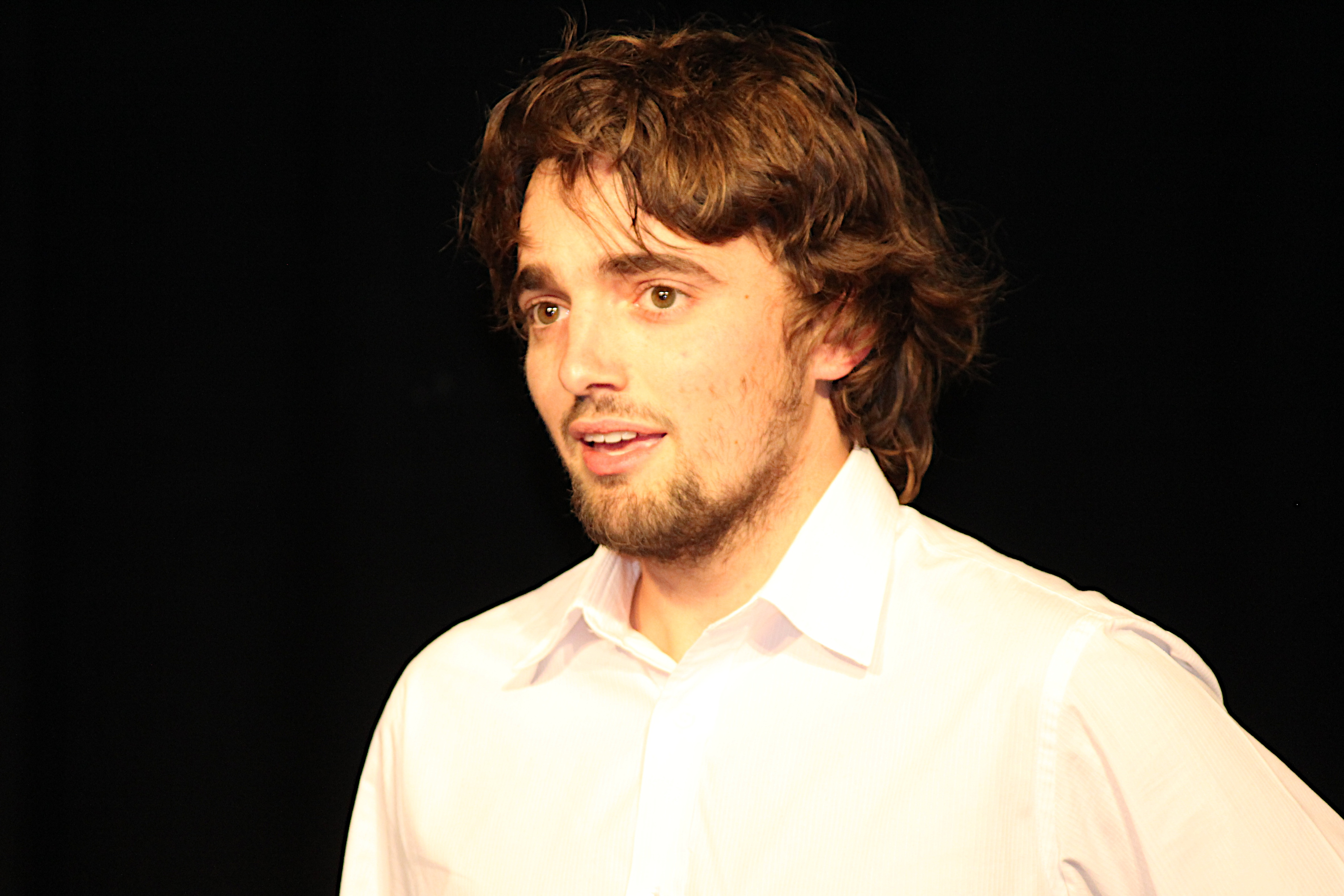 Piwik is the winner in the category Open Source Software Project New Zealand Open Source Awards 2012 ceremony in Wellington on 7 November 2012